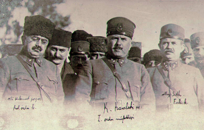 Mirliva Ali Hikmet Pasha (Ayerdem) (commander of the VI Corps), Ferik K. Karabekir Pasha (commander of the First Army), and Miralay Sıtkı Bey (Üke) (commander of the 4th Division)